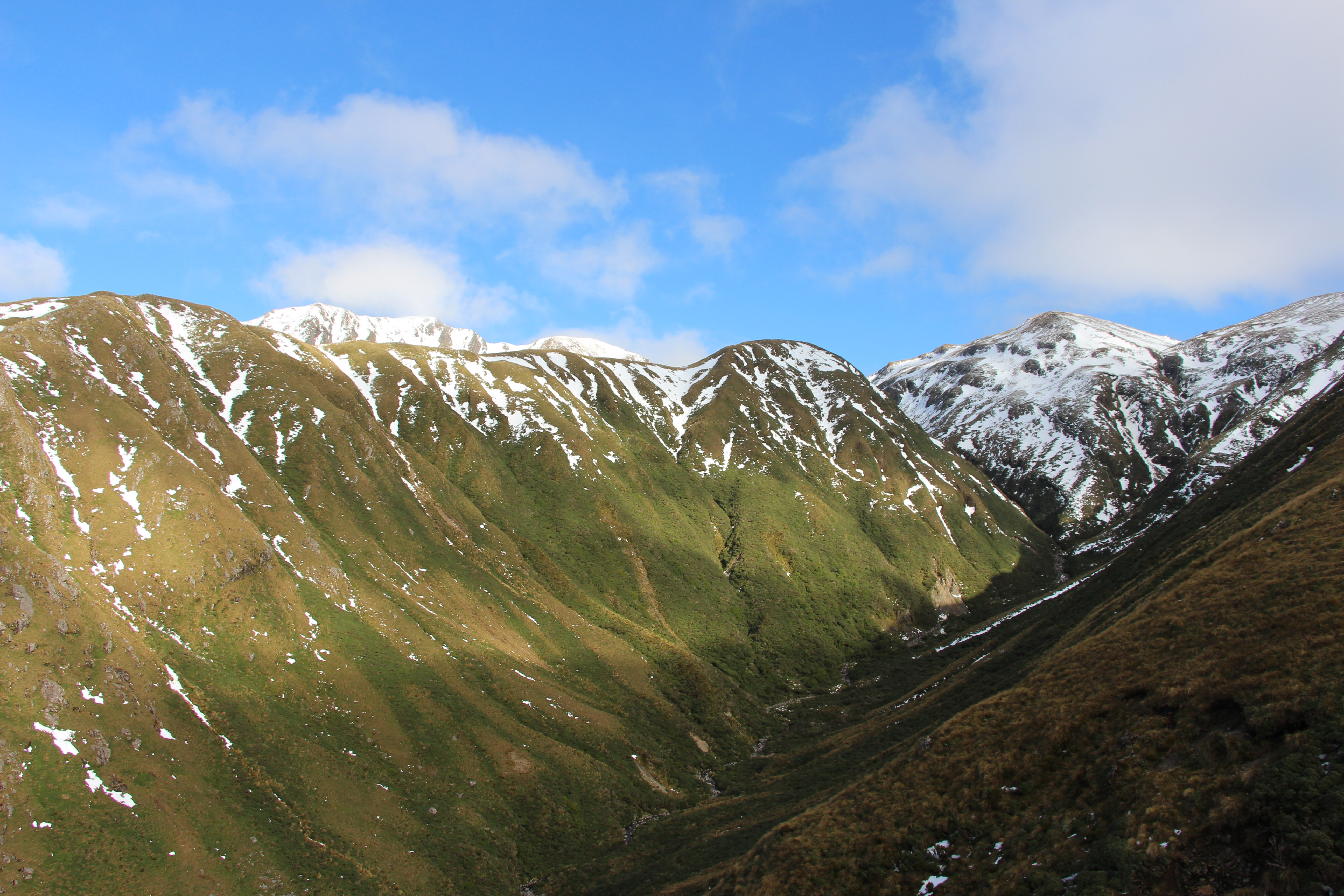 Mt Hector with Mt Hector River. Picture taken from the track between Bridge Peak - Penn Creek Hut - Field Hut. Tararua Range, New Zealand.